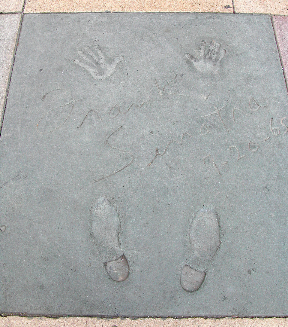 Frank Sinatra's footprints at the Grauman's Chinese Theatre, Los Angeles (California)